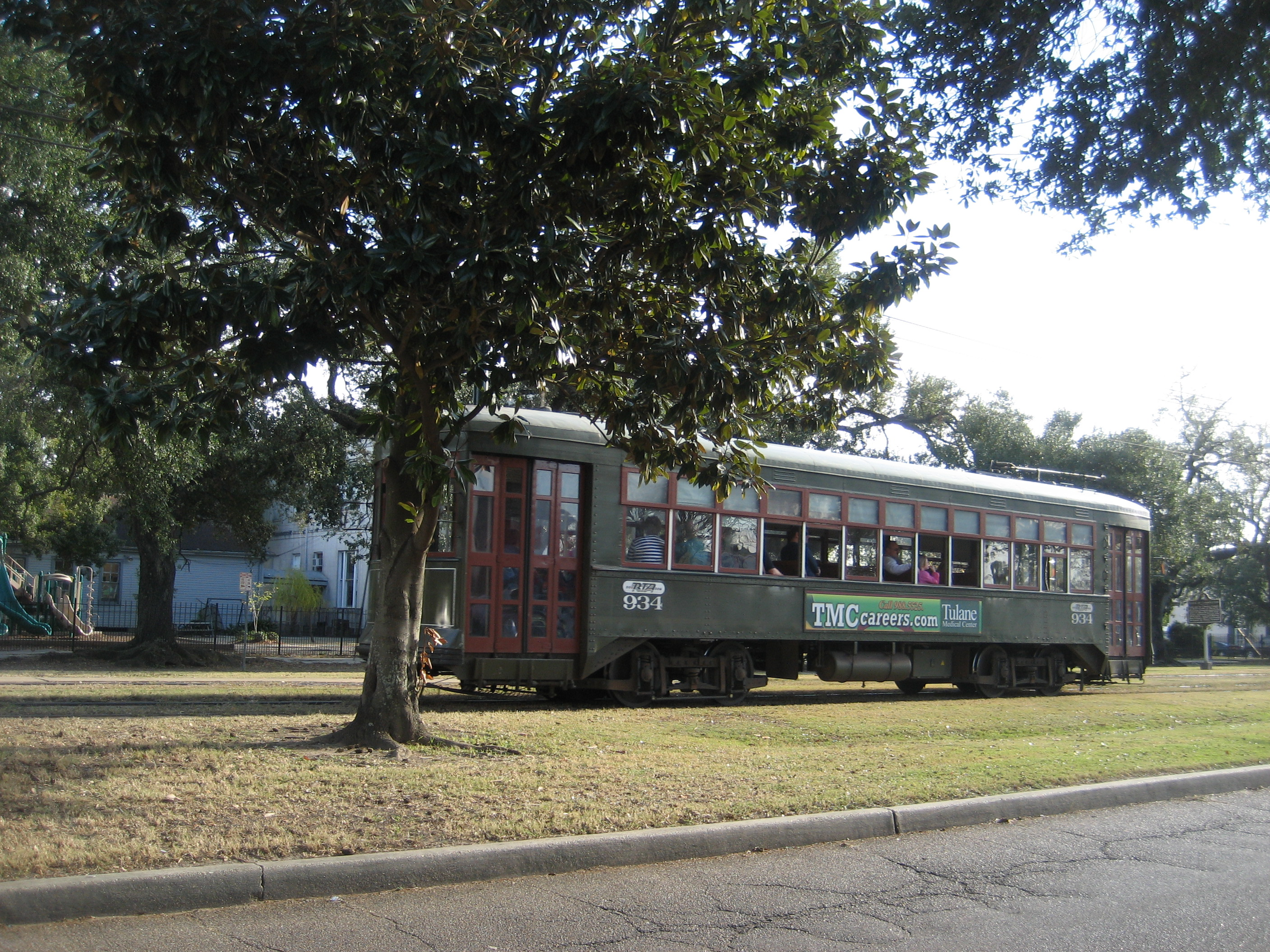 New Orleans: Streetcar passing in front of old Carrollton town hall building on Carrollton Avenue.